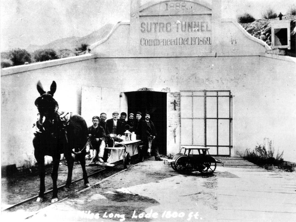 The entrance to the Sutro Tunnel in the late 1800s. Suntro, Lyon County, Nevada.